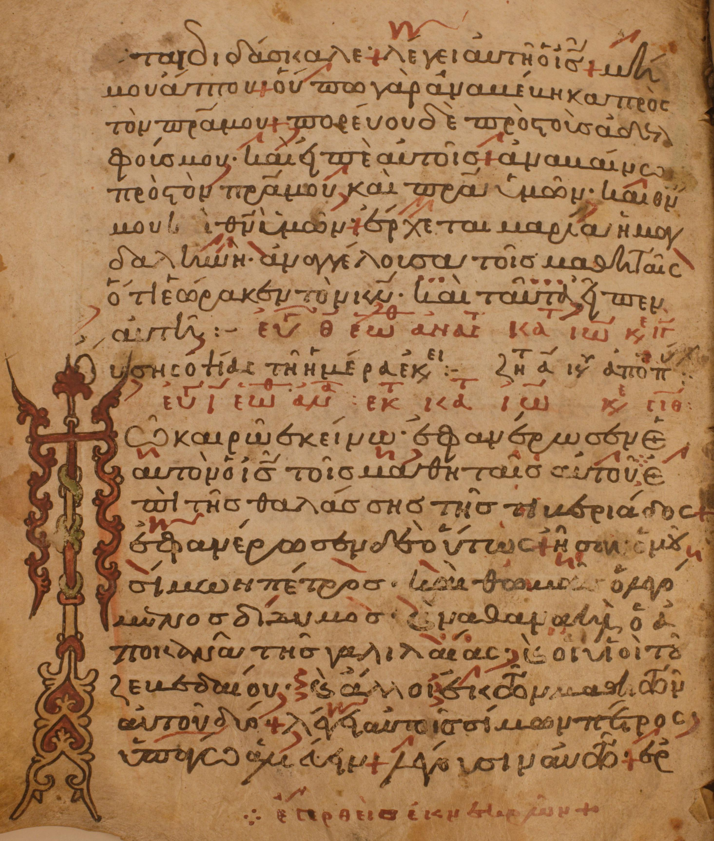 Folio 207 verso; beautiful initial